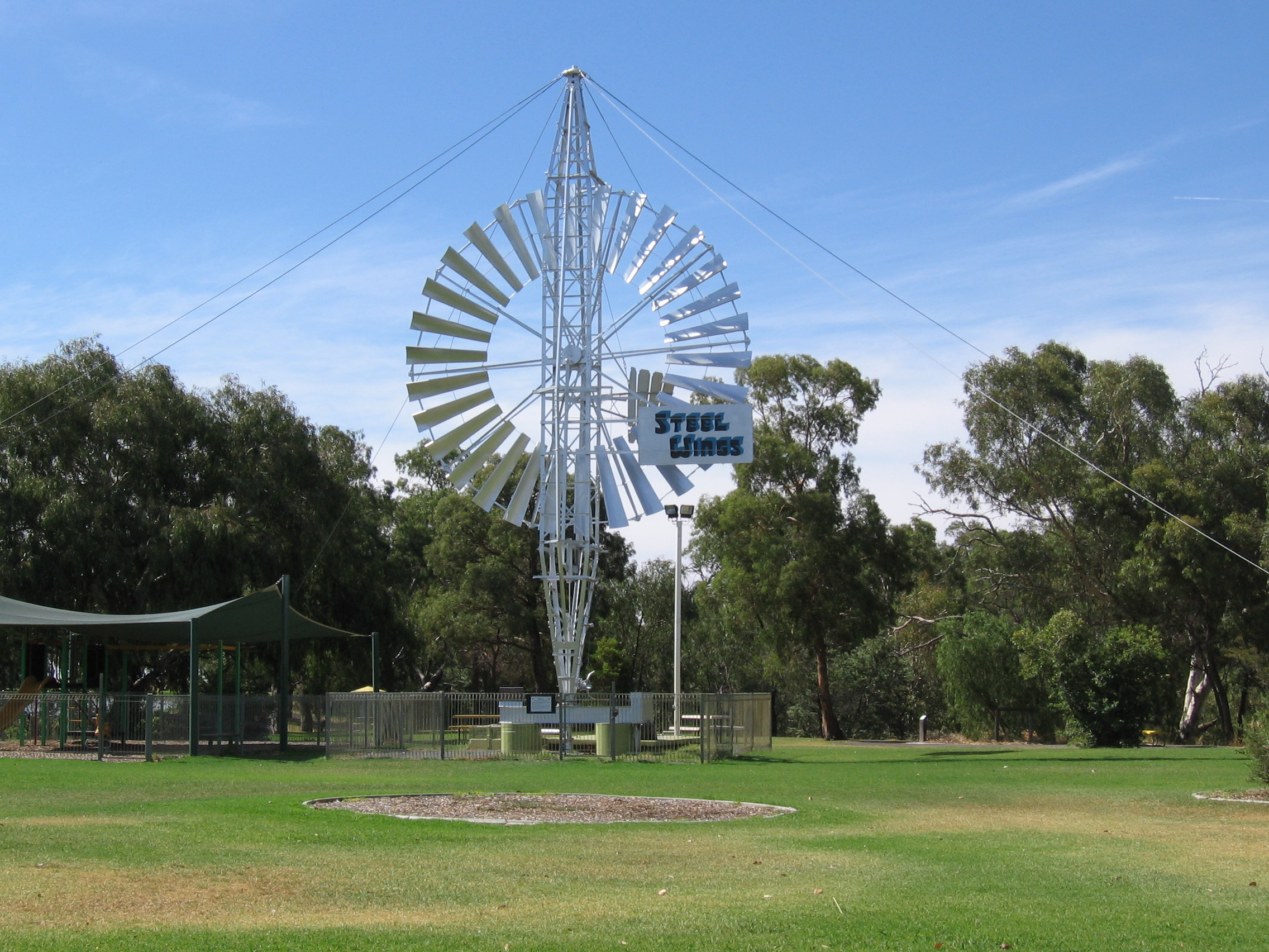 Steel Wings Windmill at Jerilderie, New South Wales